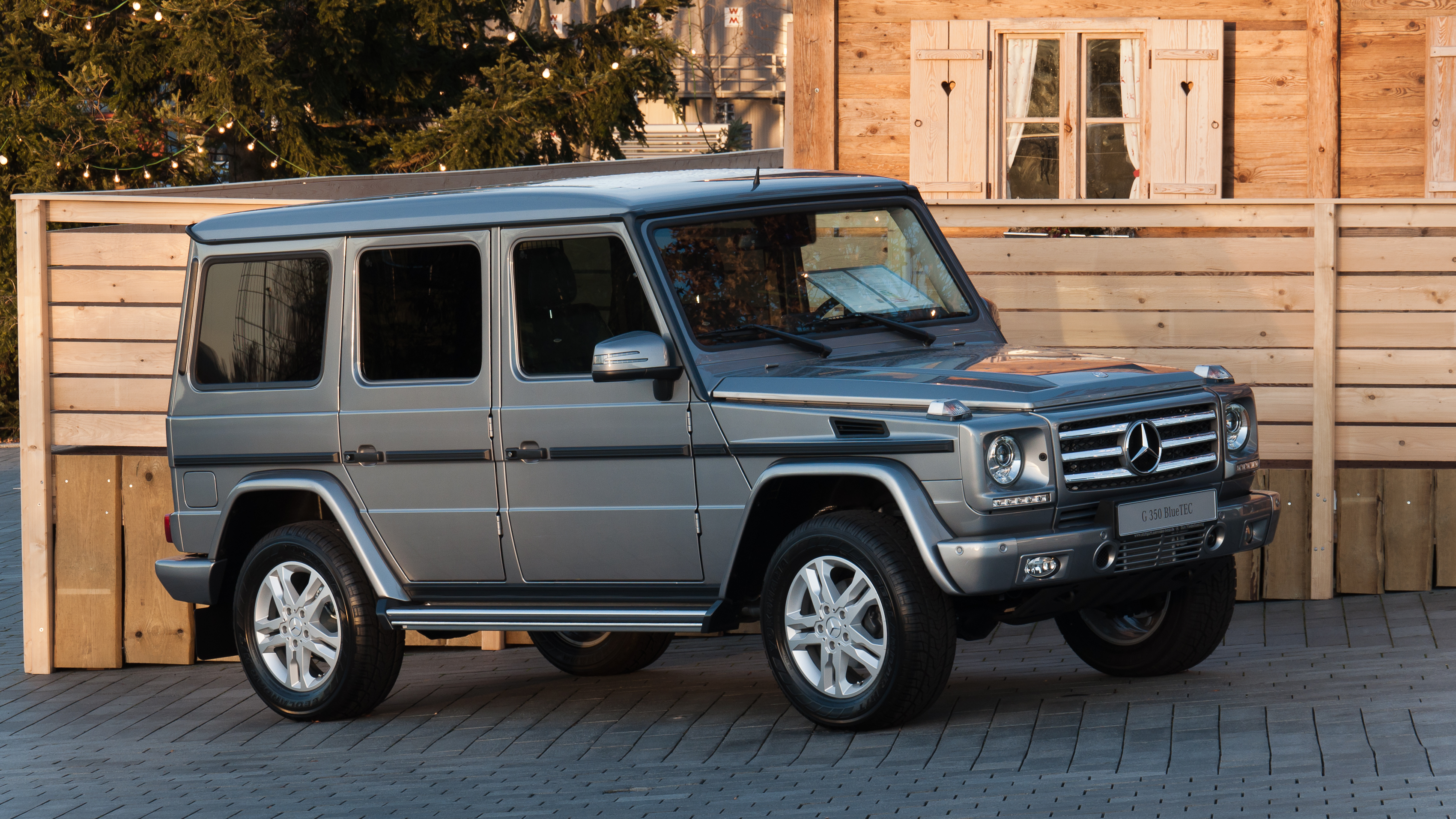 Mercedes-Benz G 350 BlueTEC (W463) in front of the Mercedes-Benz Museum in Stuttgart, Germany.